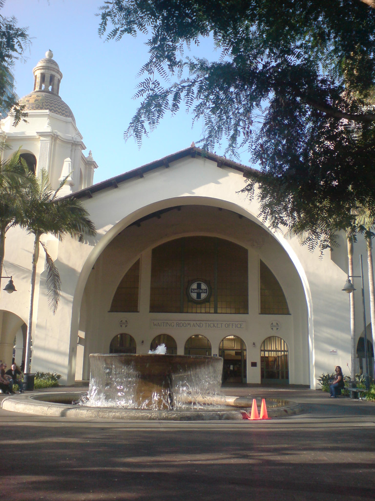 The front of the Santa Fe Depot